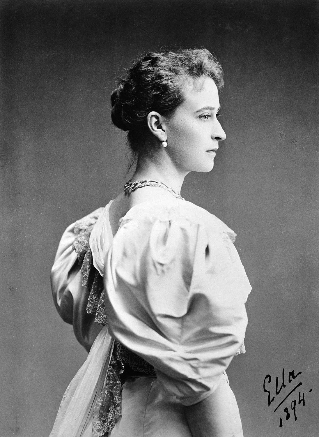 Photo of St. Elizabeth from 1894 taken from ortodoxwiki Elizabeth the New Martyr.